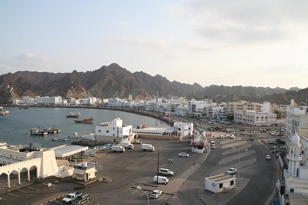 Muttrah, Muscat and the port. Photo taken from above the fish market.